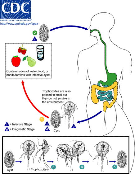 Giardiasis [Giardia intestinalis (syn. Giardia lamblia)] Life cycle of Giardia intestinalis Cysts are resistant forms and are responsible for transmission of giardiasis. Both cysts and trophozoites can be found in the feces (diagnostic stages). The cysts are hardy, can survive several months in cold water. Infection occurs by the ingestion of cysts in contaminated water, food, or by the fecal-oral route (hands or fomites). In the small intestine, excystation releases trophozoites (each cyst produces two trophozoites). Trophozoites multiply by longitudinal binary fission remaining in the lumen of the proximal small bowel where they can be free or attached to the mucosa by a ventral sucking disk. Encystation occurs as the parasites transit toward the colon. The cyst is the stage found most commonly in non-diarrheal feces. Because the cysts are infectious when passed in the stool or shortly afterward, person-to-person transmission is possible. While animals are infected with Giardia, their importance as a reservoir is unclear.